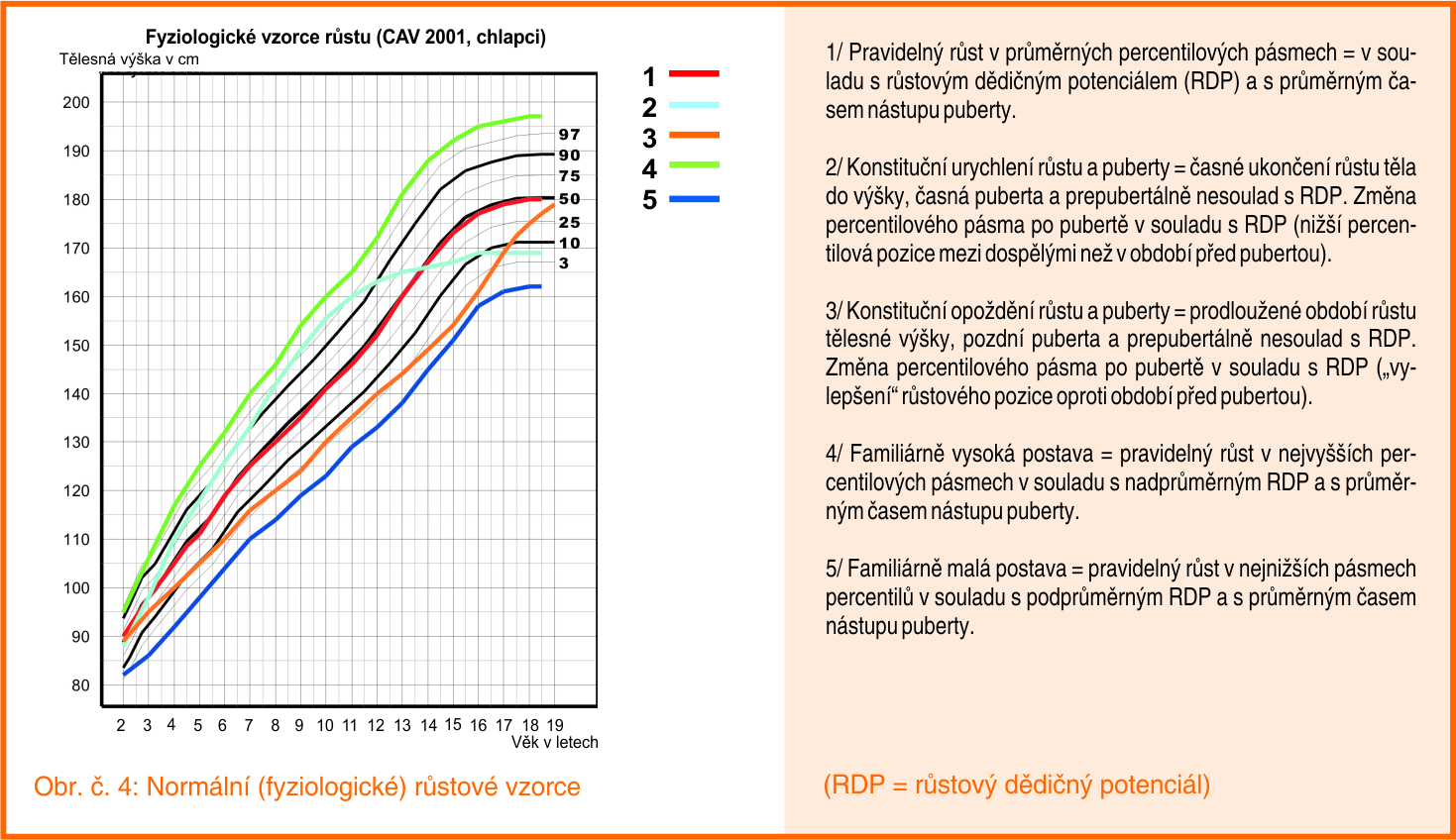 Normální růstové vzorce